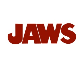 Jaws logo